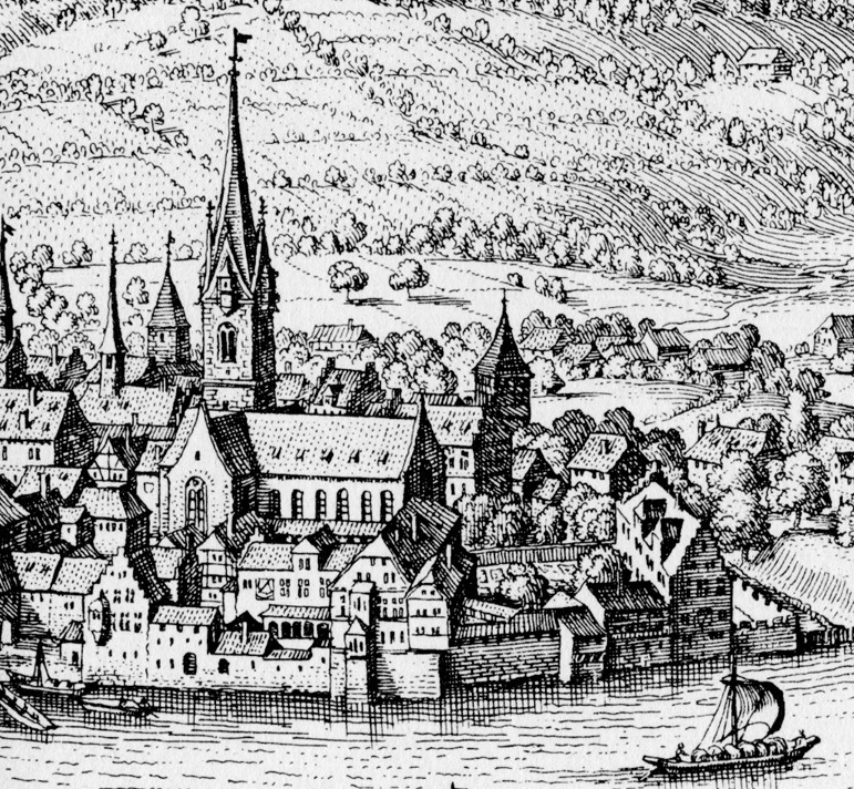 View of St. Georgen in Stein am Rhein in the Canton of Zurich, Switzerland, 1642